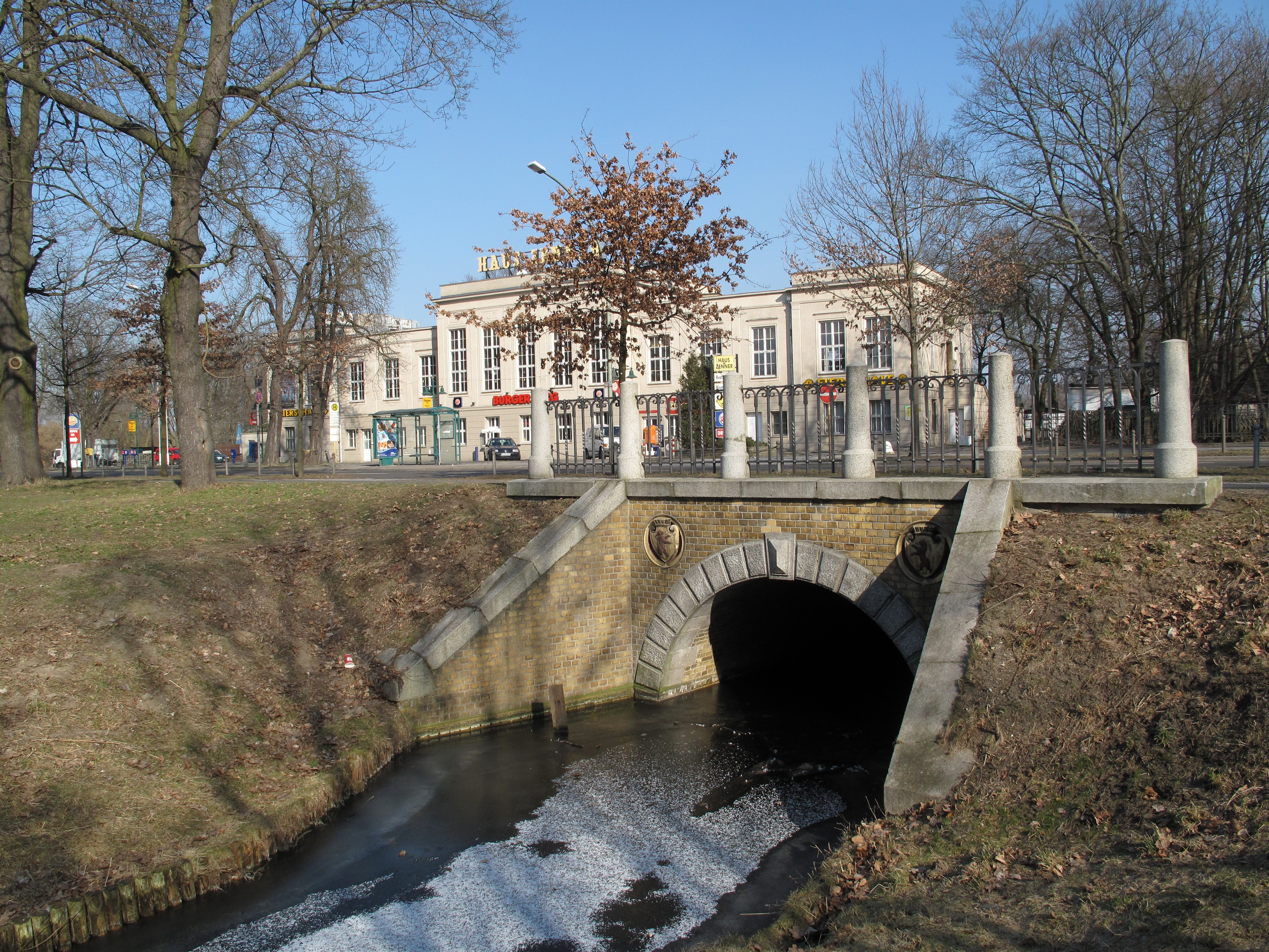 Bridge of the street Alt-Treptow over the Heidekampgraben in the Treptower Park; in the background the inn and beer garden Zenner. The Heidekampgraben is a drainage channel in the localities Neukölln in the borough Berlin-Neukölln and Baumschulenweg, Plänterwald und Alt-Treptow in the borough Treptow-Köpenick. The channel connects the Britzer Verbindungskanal with the river Spree. During the years of the German separation a part of the Heidekampgraben marked the inner German border between West- and East-Berlin. After the fall of the Berlin Wall there was installed the green space Heidekampgraben (german: „Grünzug Heidekampgraben“) over a length of 2,5 kilometres.